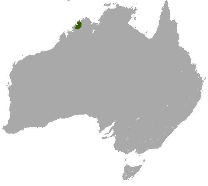 Monjon (Petrogale burbidgei) range